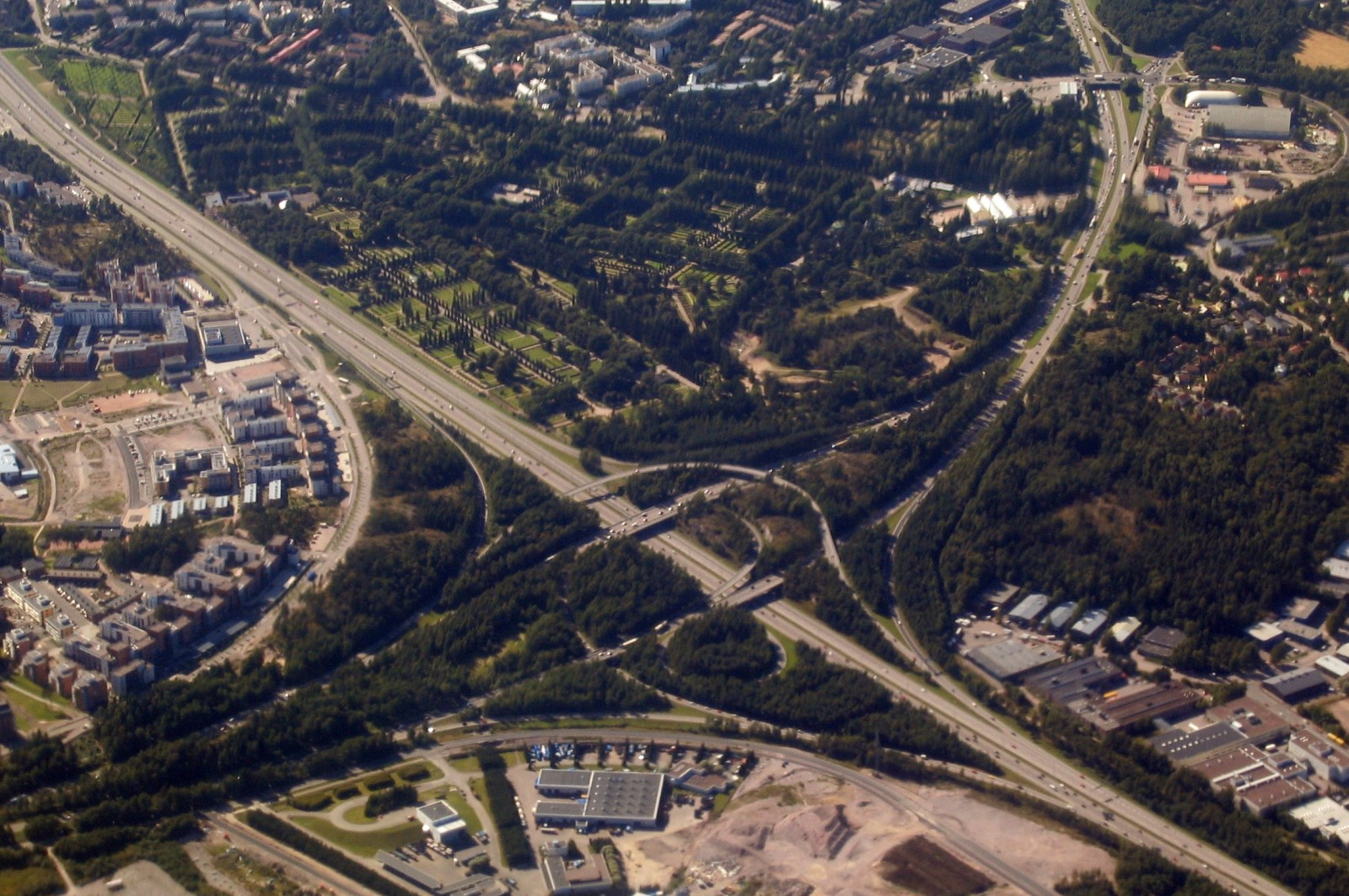 Aerial view of Malmi cemetery, Helsinki, Finland